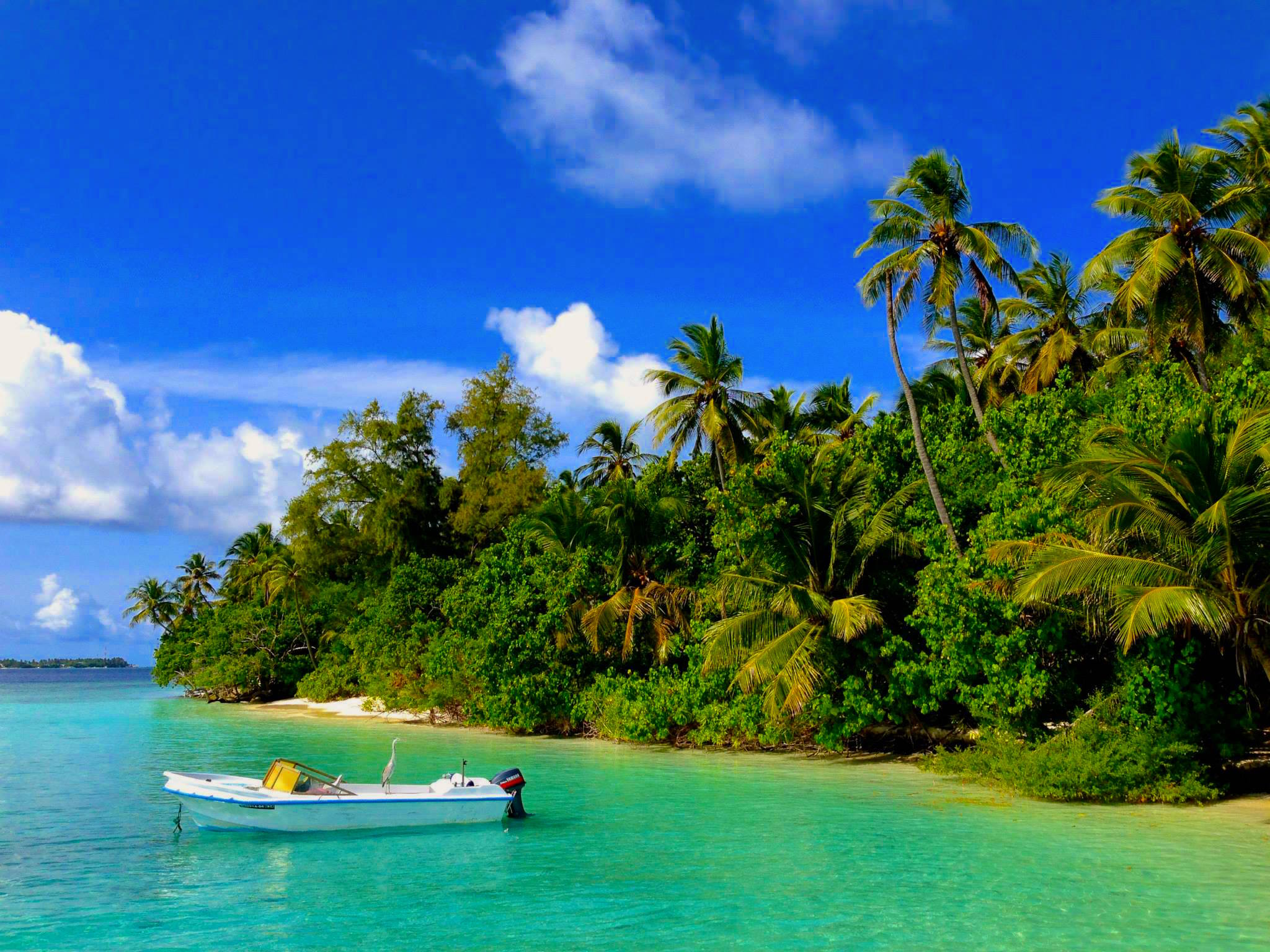 The shoreline of Biyadhoo Island.